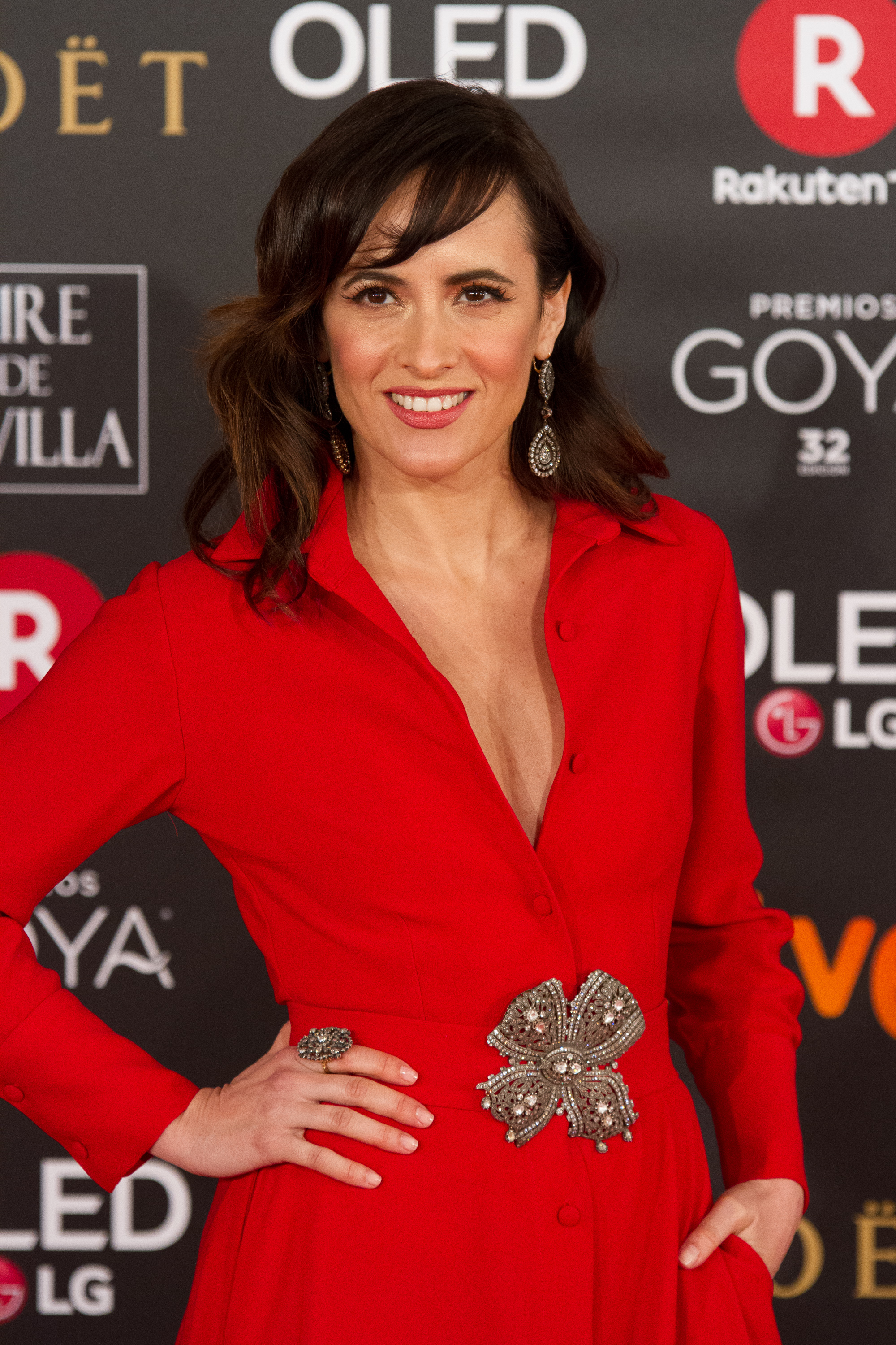 32nd Goya Awards, 2018.